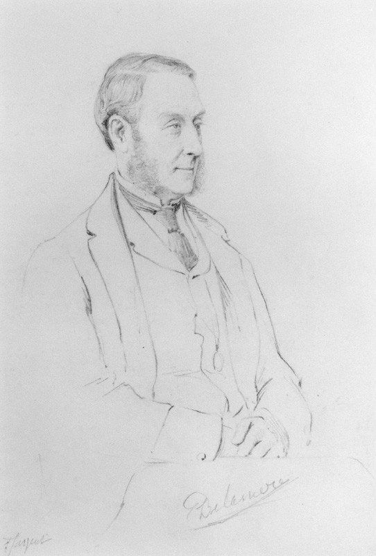 The Lord Delamere, by Frederick Sargent